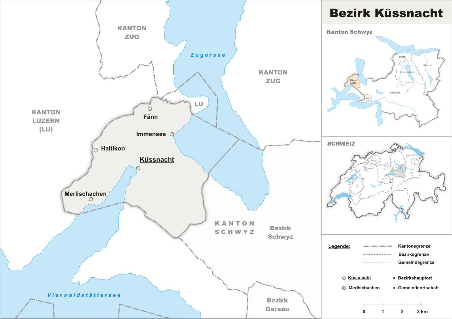 Municipalities in the district of Küssnacht